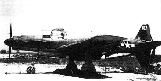 A captured German Dornier Do 335A-0 Pfeil fighter (Wk.Nr. 240102, VG+PH) being tested by United States Navy at Naval Air Station Patuxent River, Maryland (USA), 1945.